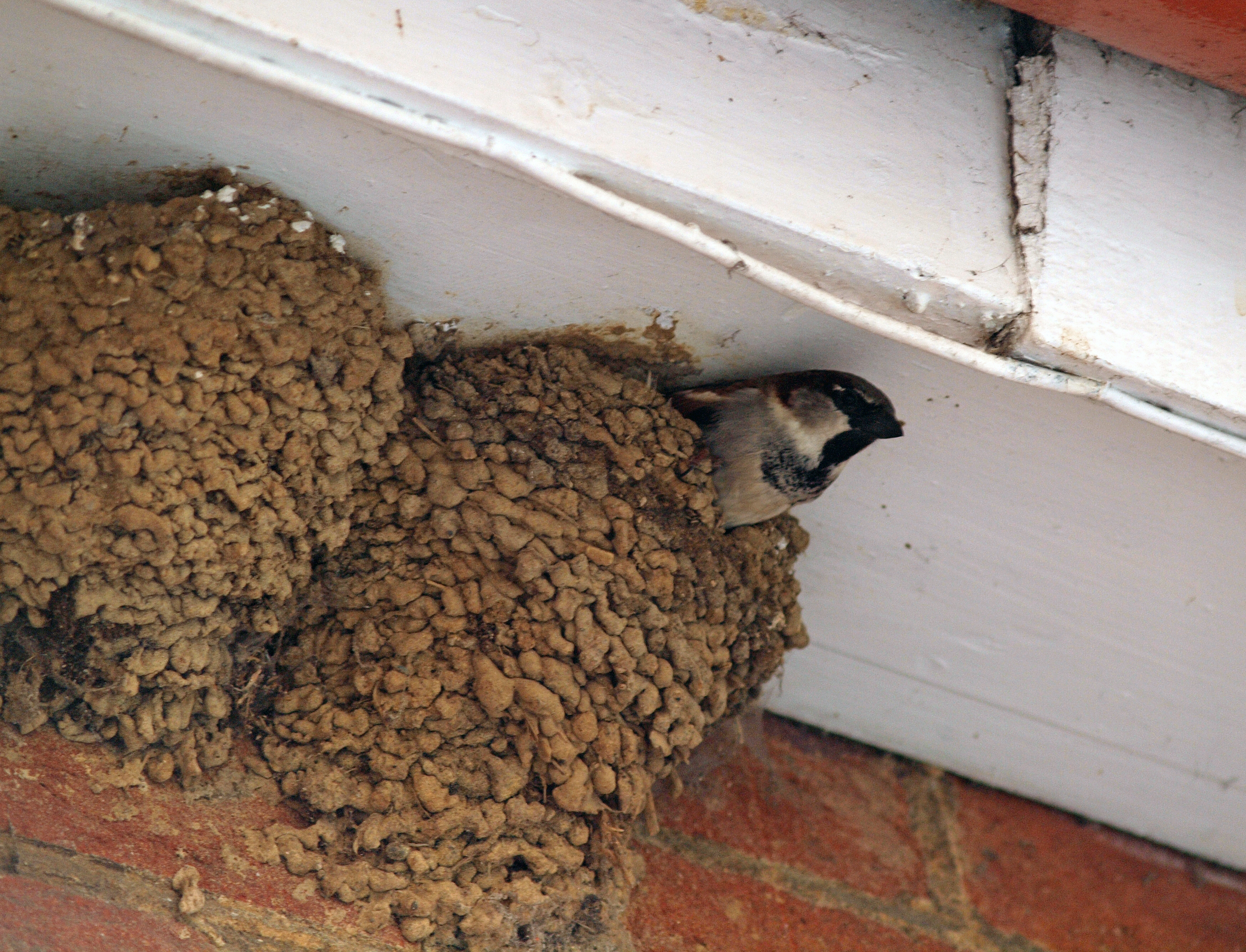 A male House Sparrow in the former nest of a House Martin